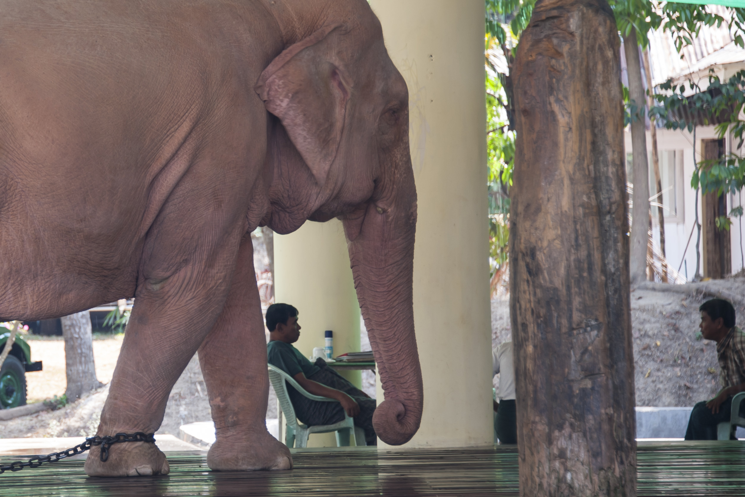 A holy white elephant outside Yangon, Burma. March 2013